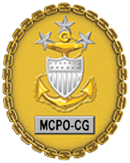 Master Chief Petty Officer of the Coast Guard Emblem (United States Coast Guard).